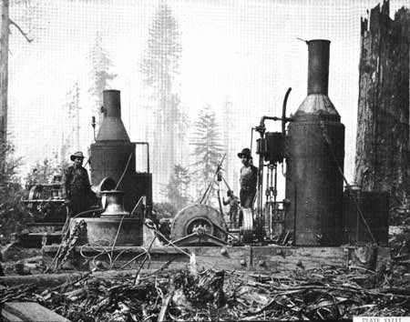 Dolbeer Spool Donkey, a steam powered cable winch used to haul timber, near Fort Dick, California, around 1900